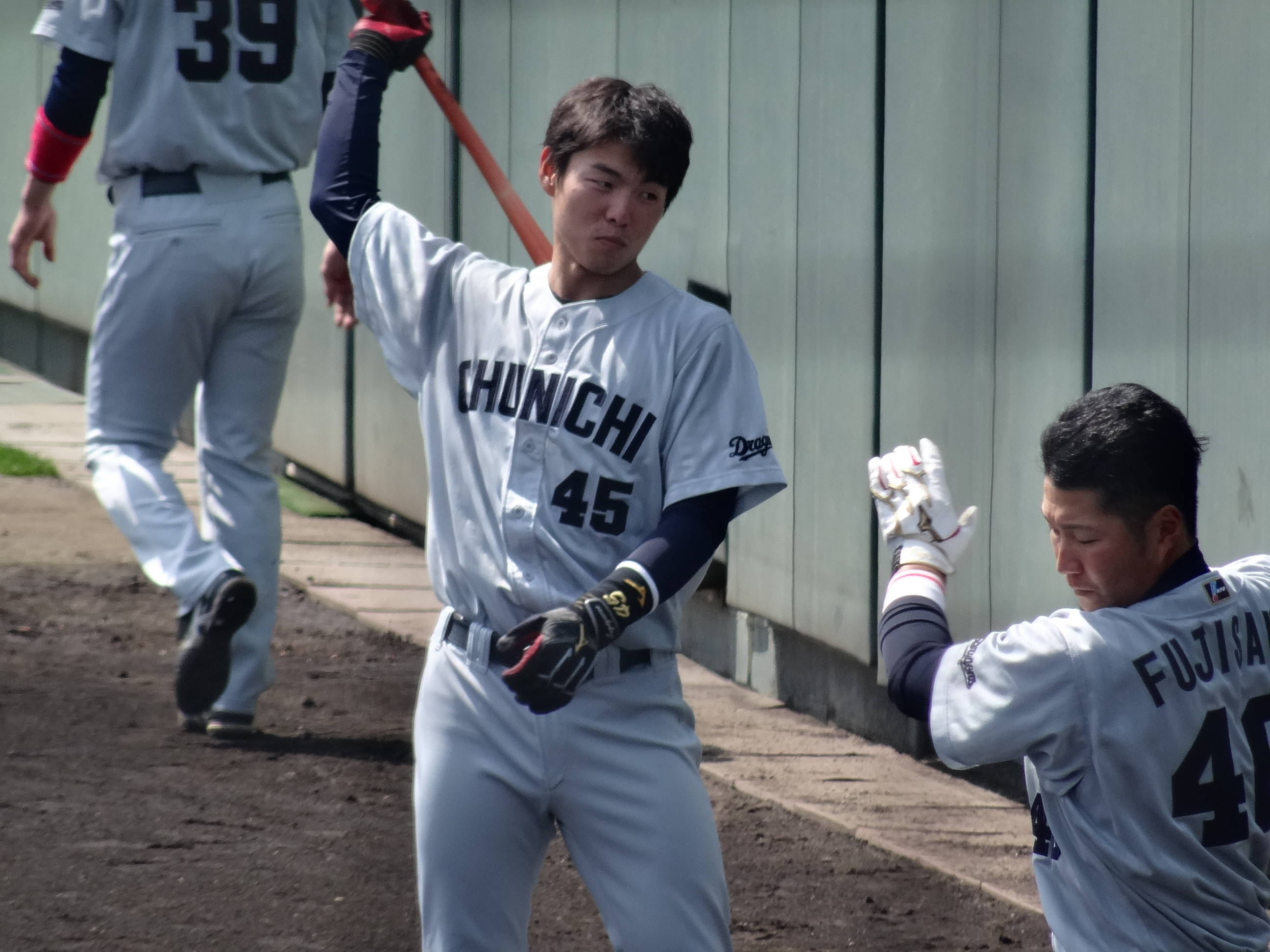 Shota Sugiyama, catcher of the Chunichi Dragons, at Hanshin Naruohama Baseball Ground.